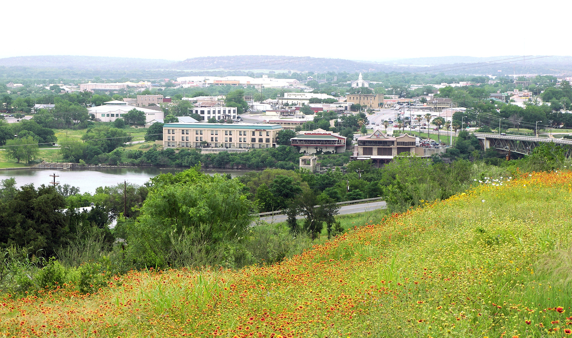 Marble Falls, Texas as seen from a roadside park on US Hwy 281.